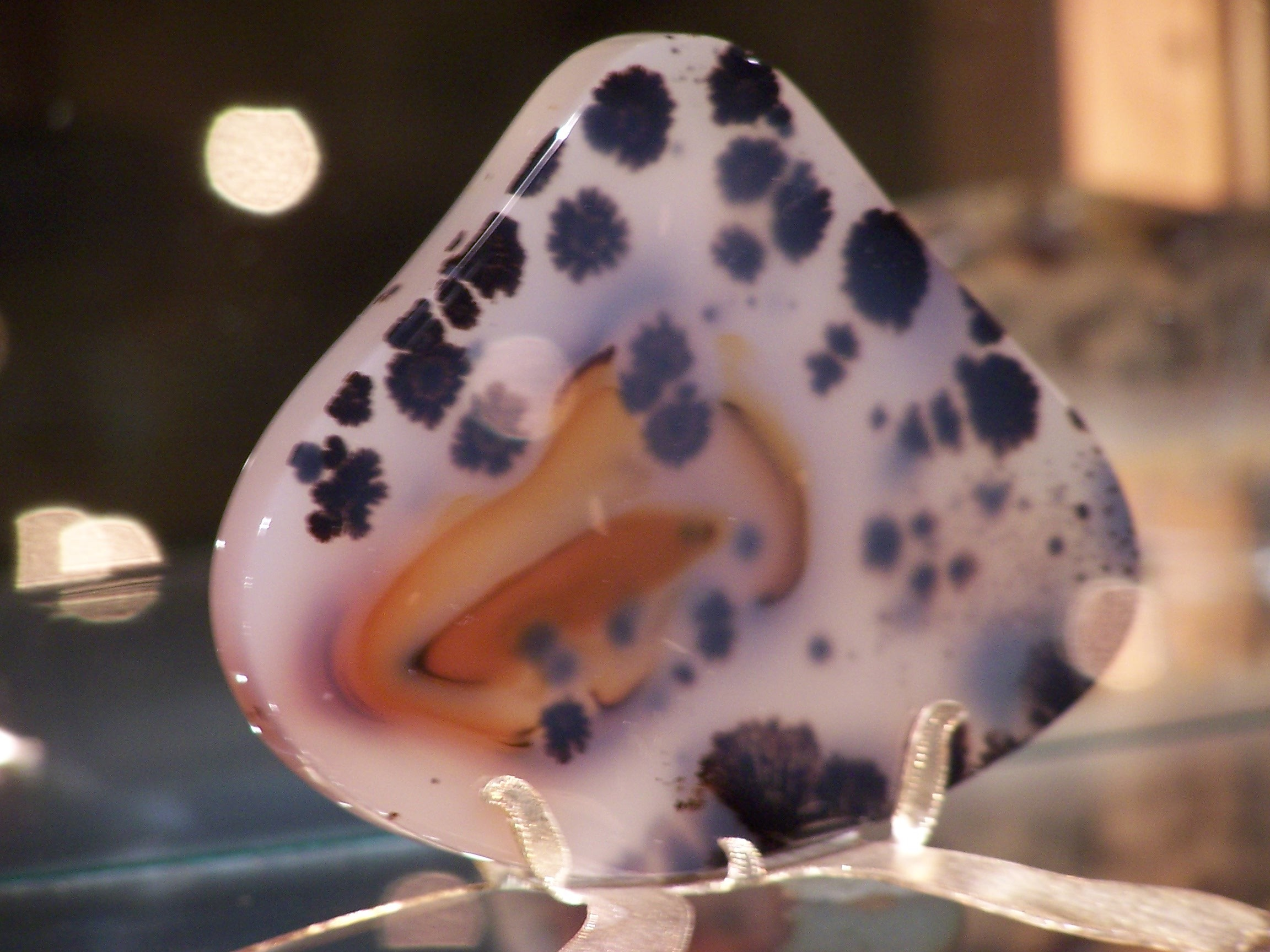 Brooks Britt Specimen and Photo